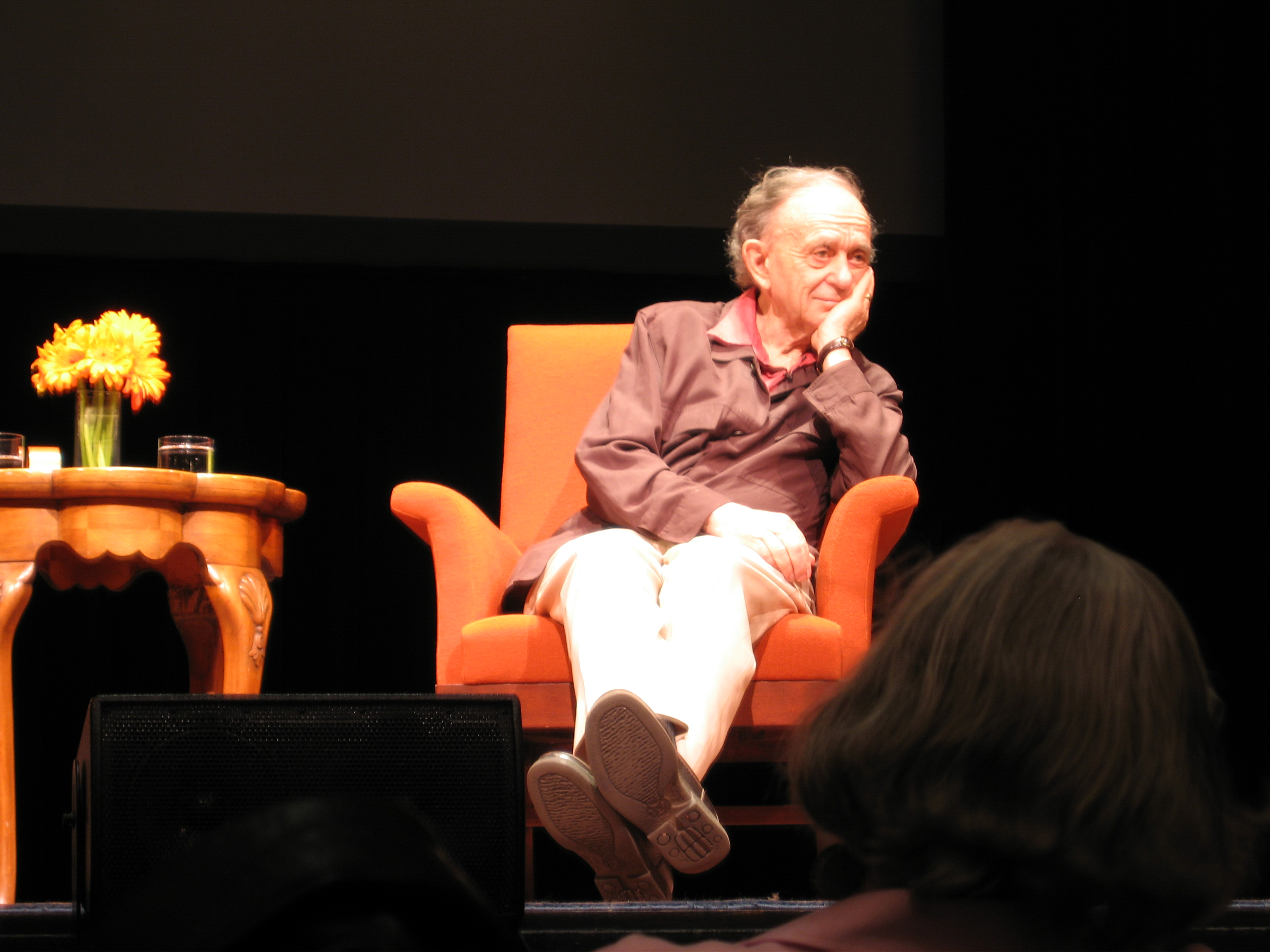 an evening with Frederick Wiseman, June 13th, 20005. [1]